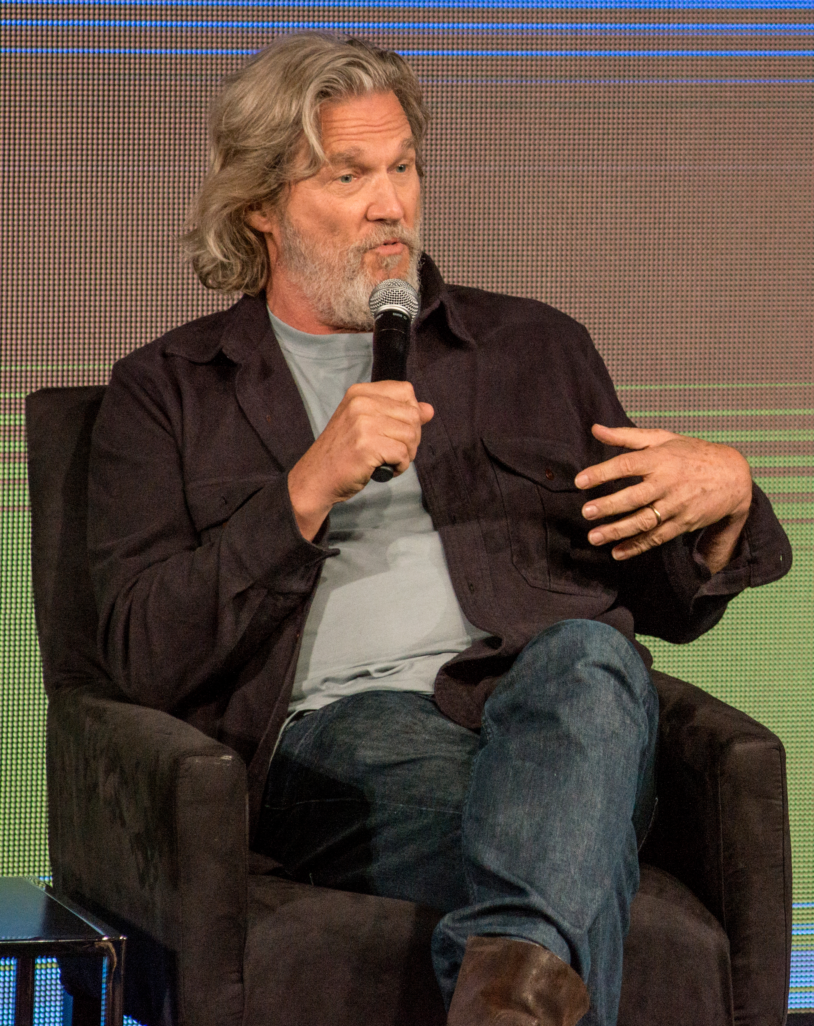 Jeff Bridges talking about The Giver in 2014